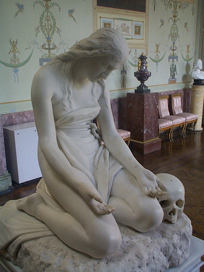 Antonio Canova, Maddalena penitente (english: "The Repentant Mary Magdalene"). Location: Hermitage, St. Petersburg.